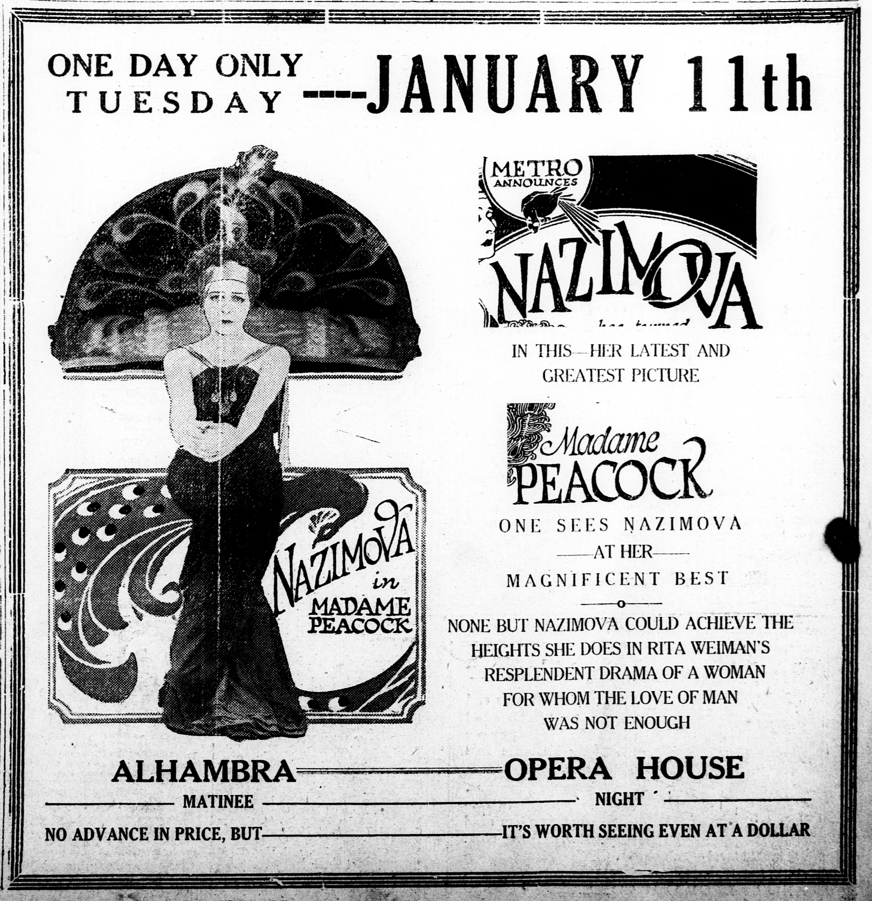 Madame Peacock is a 1920 silent film drama written, produced by and starring Alla Nazimova and distributed by Metro Pictures. This is a contemporary newspaper advert for the film.